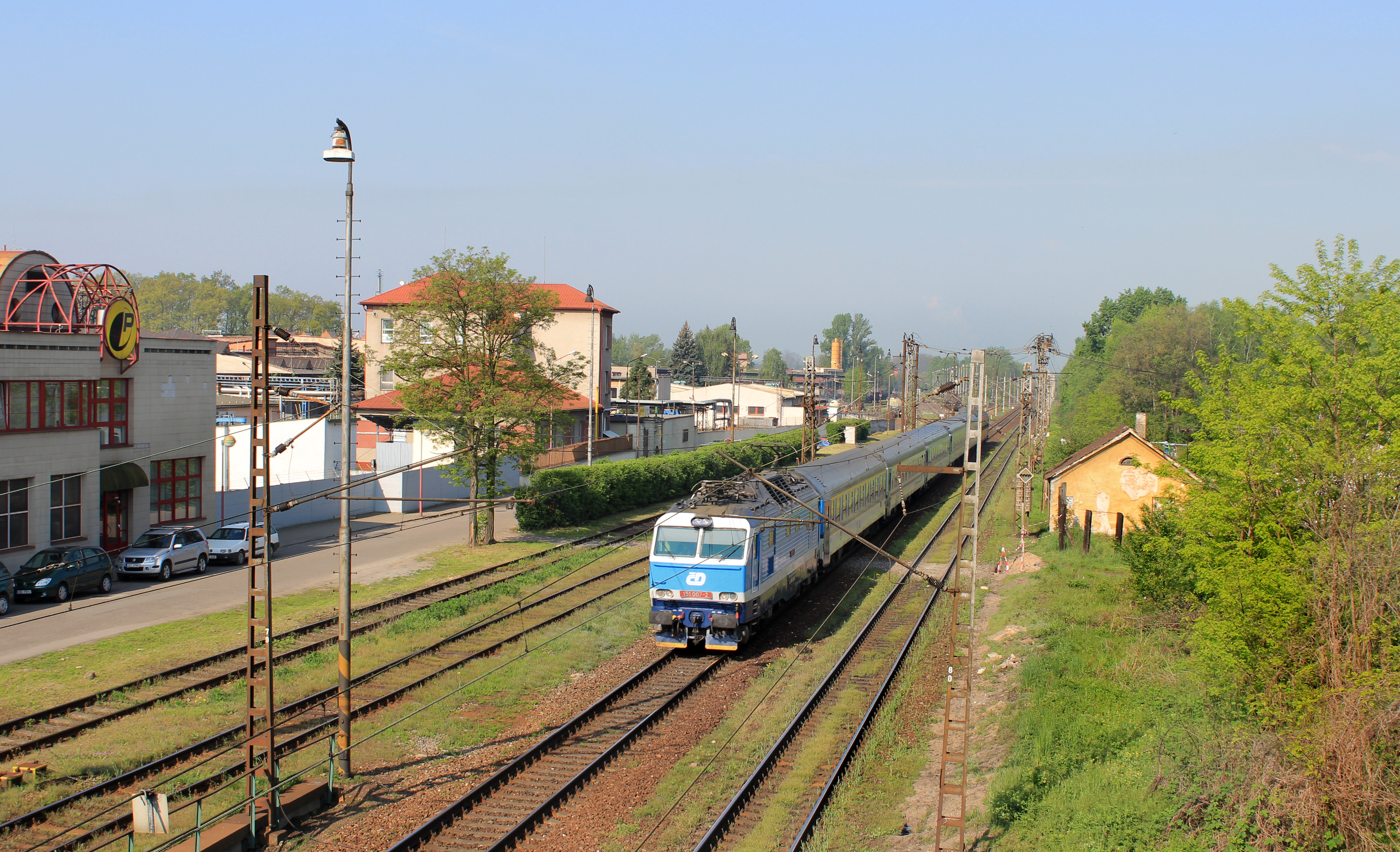 Railway line 010 in Pardubice, Czech Republic